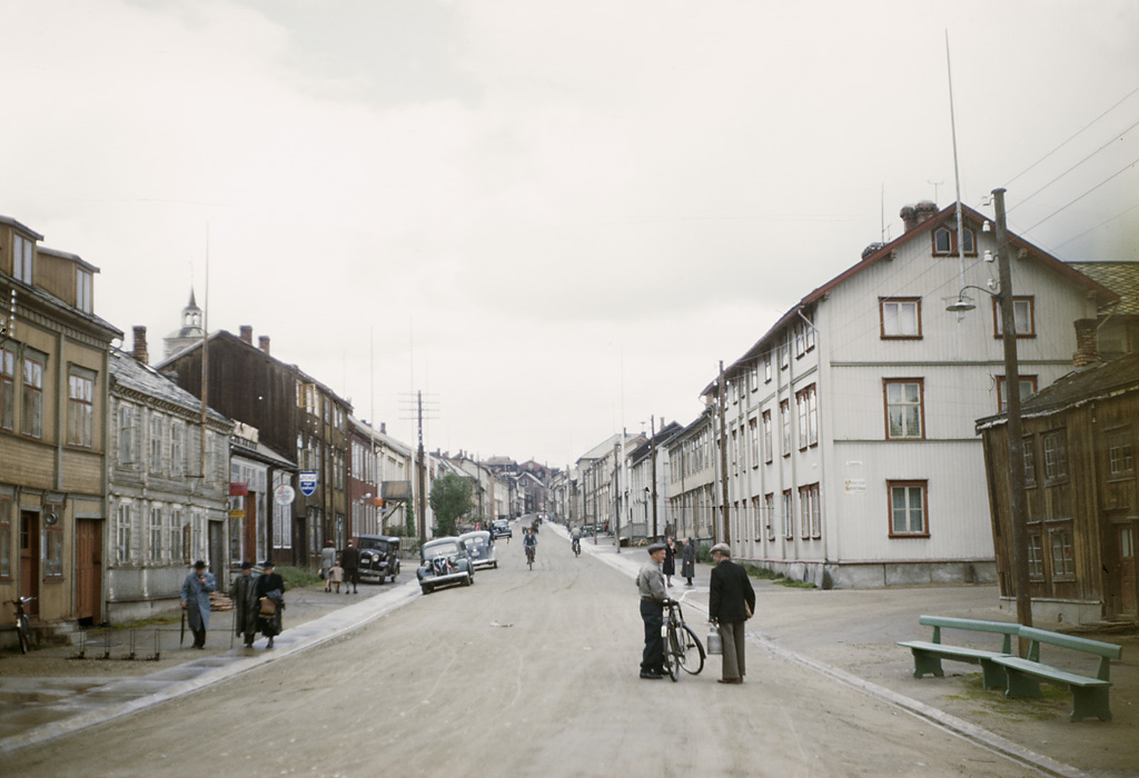 A street in Røros in Norway. En gata (Bergmansgate?) i Röros i Norge. Location: Røros, Sør-Trøndelag fylke (county), Norway Photograph by: Fredrik Bruno Date: 14.07.1948 Format: Colour slide Kulturmiljöbild: 16001000281584 (Persistent URL) Read more about the photo database (in english)